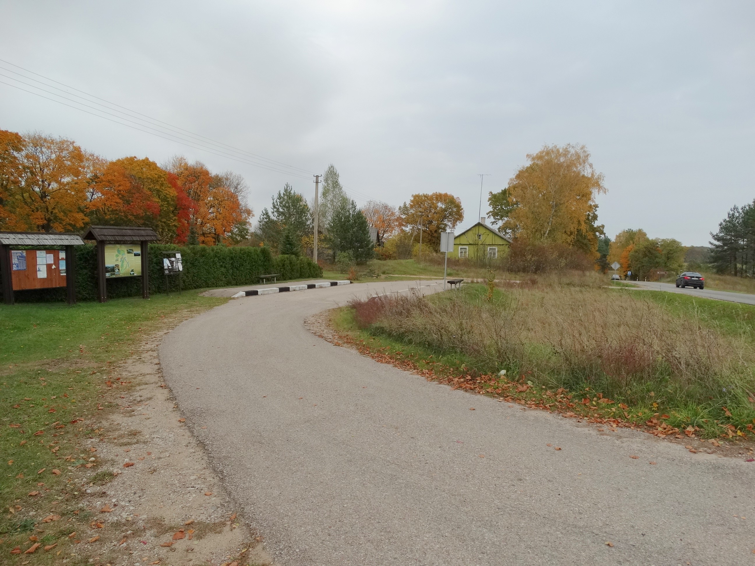 Gegutė, Lazdijai district, Lithuania